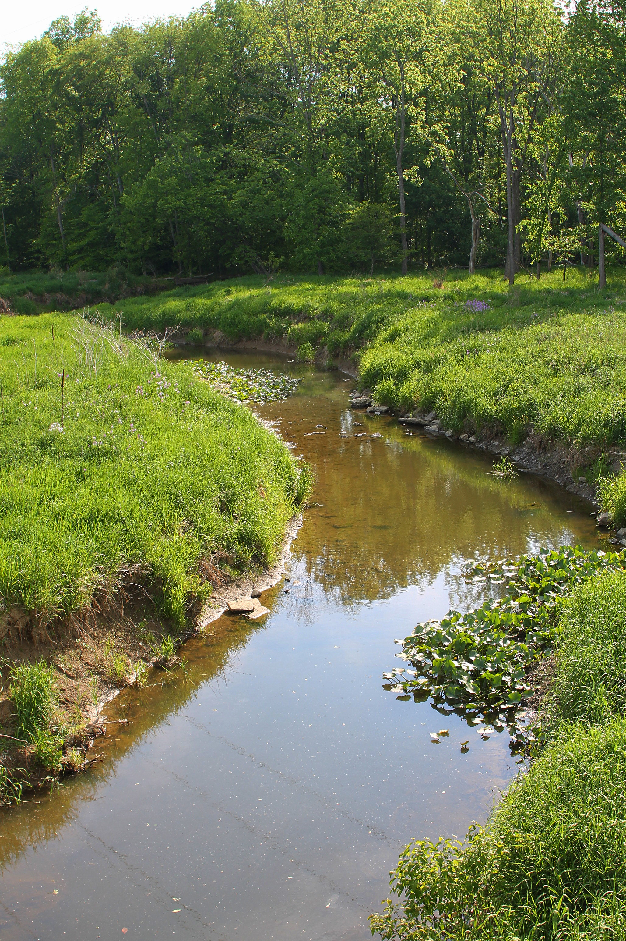 Mud Creek looking downstream from Ppl Road